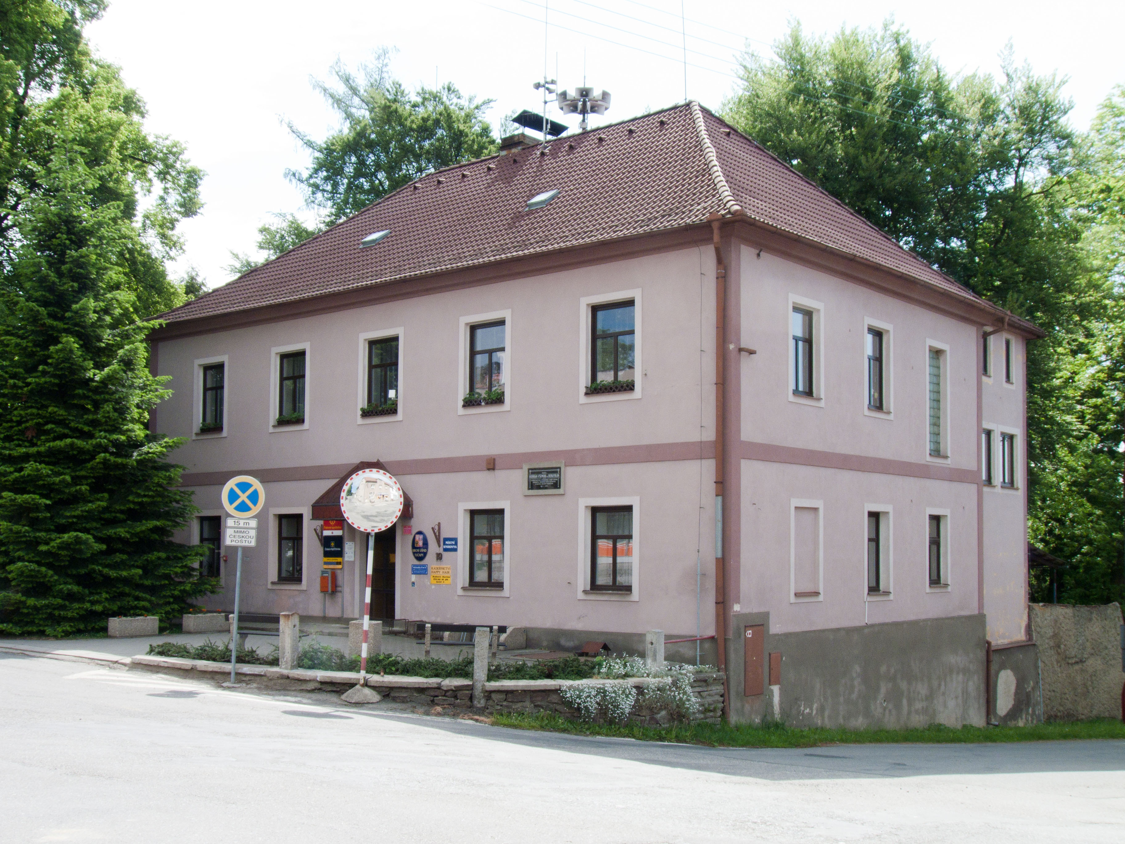 Municipal office building in the village of Tučapy, Tábor District, Czech Republic. Česky: Obecní úřad v obci Tučapy v okrese Tábor.